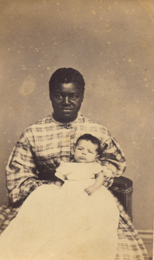 Civil war carte-de-visite, notated on reverse "Aunt Susan", with 2 cent tax stamp and photographer's name.